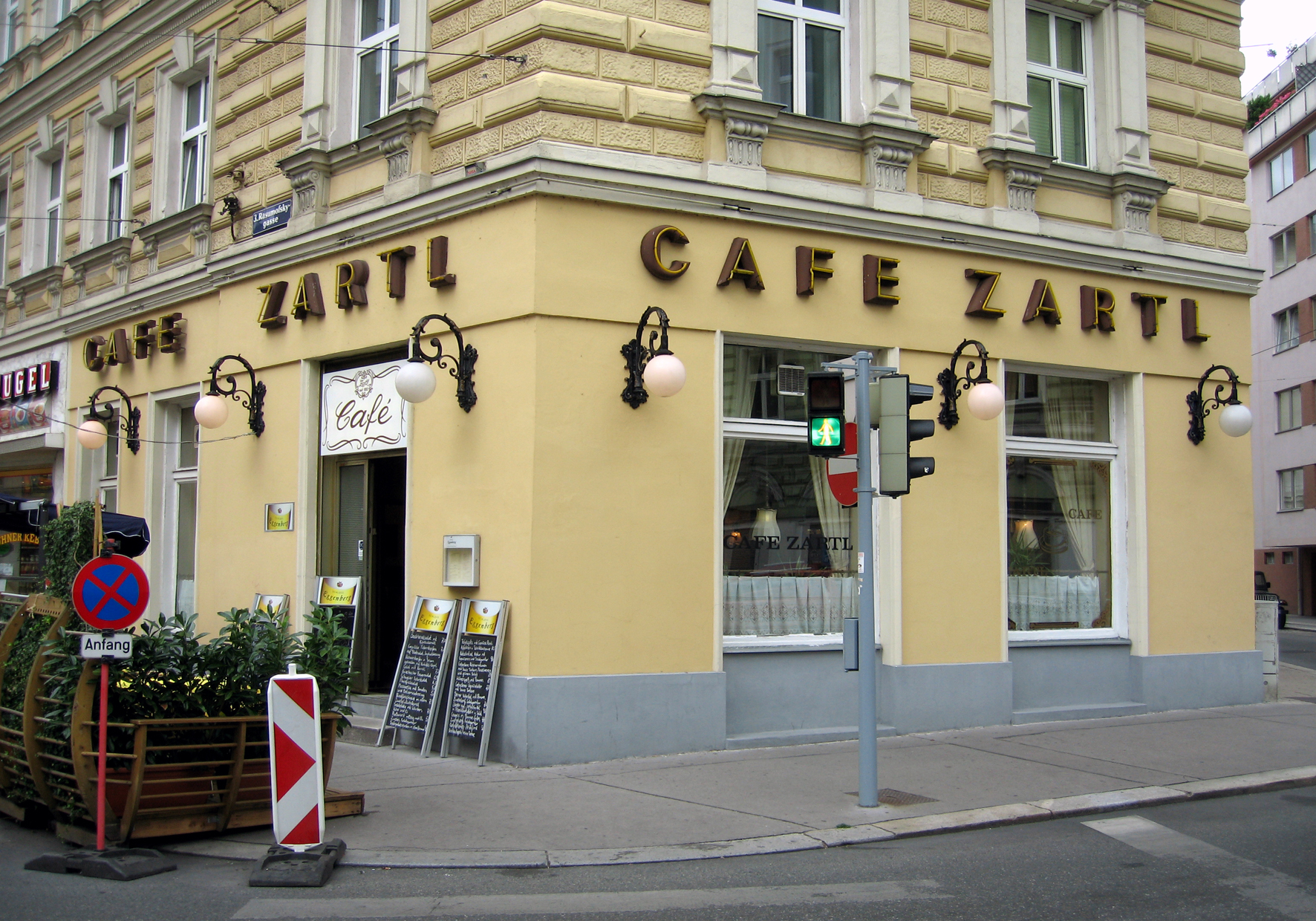 The Café Zartl in the Rasumofskygasse in Vienna.